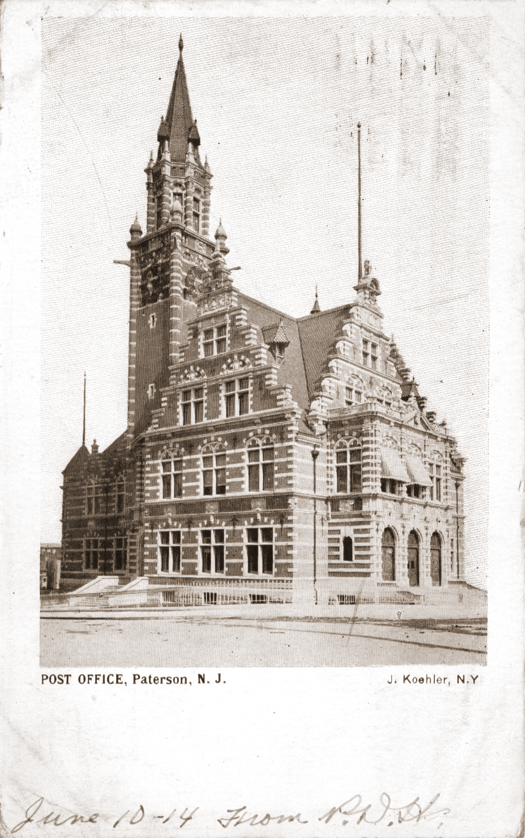 Matte black and white photo postcard of the post office, Paterson, New Jersey. Back is NOT divided. It reads "This side for the address only. Conforms to the requirements of section 418, Postal Laws and Regulations." There is no message on the back of the card. Constructed in 1899 as the United States Post Office following a design of architect Fred Wesley Wentworth in the Dutch Baroque Revival style. The county acquired the building in 1936 when was re-dedicated as the Passaic County Administration Building and annexed to the adjacent county court house, and is known as the Old Court House Annex.